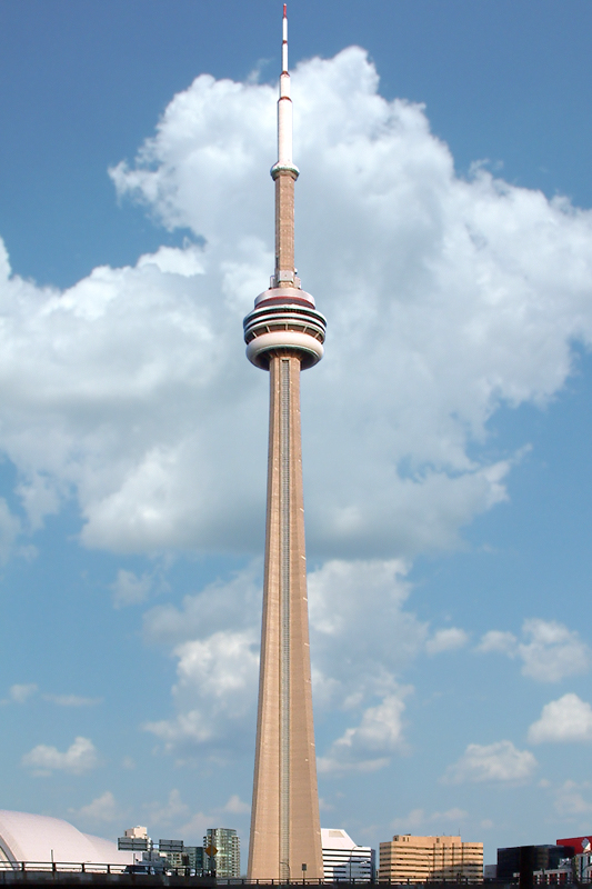 Once setting the free standing, land record for the world's tallest structure, measuring 553.33 meters (1,815 feet, 5 inches), the CN Tower is Toronto's most visible landmark and arguably its most celebrated tourist destination. 2006 marks its 30th anniversary. This view looks WNW.